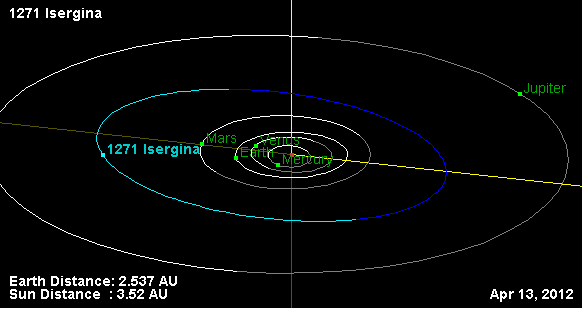 1271 Isergina orbit, and his position on 13 Apr 2012 (NASA Orbit Viewer applet)